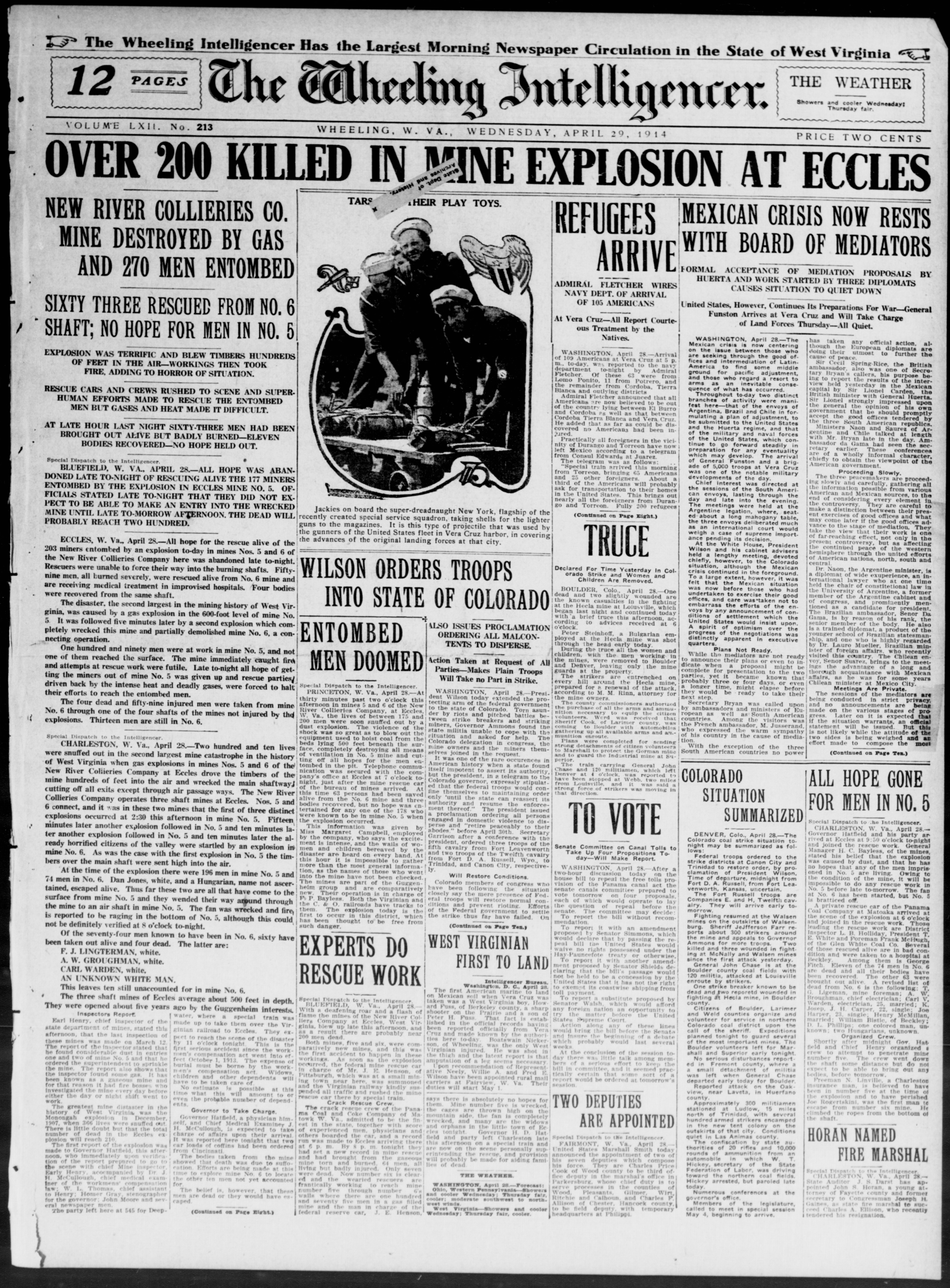 The Wheeling intelligencer., April 29, 1914, Image 1